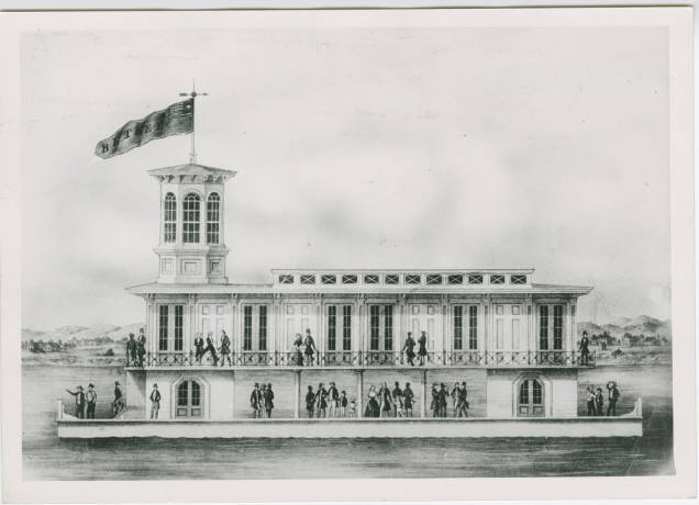 Bethel riverboat - Reverse reads: "Brats - Union Bethel- Floating Bethel, Cincinnati Ohio." This is an artist's rendering of "Floating Bethel." In 1894 a preacher built a chapel and living quarters on a small barge. He floated down river from Pittsburgh to Moundsville, West Virginia, using singers on the barge to attract attention to his preaching. The Floating Bethel burned down in 1898. This picture is a highly idealized rendering of the Floating Bethel. In reality, it was a small hut built on a barge.